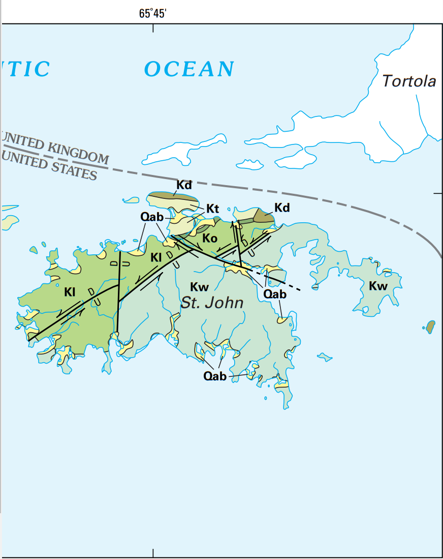 USGS geologic map St John USVI, where Qab is Quaternary alluvium and minor beach deposits, Kt is the Cretaceous Tutu Formation, Ko is the Cretaceous Outer Brass Formation, Kl is the Cretaceous Lousenhoj Formation, Kw is the Water Island Formation, and Kd are Cretaceous dioritic rocks, while U and D show the upthrown and downthrown portion of faults.